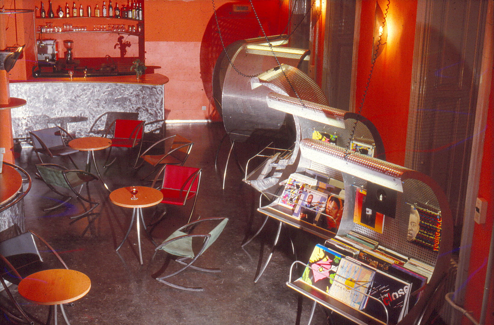 Black Market Record store Vienna, Austria by Gruppe BRAND